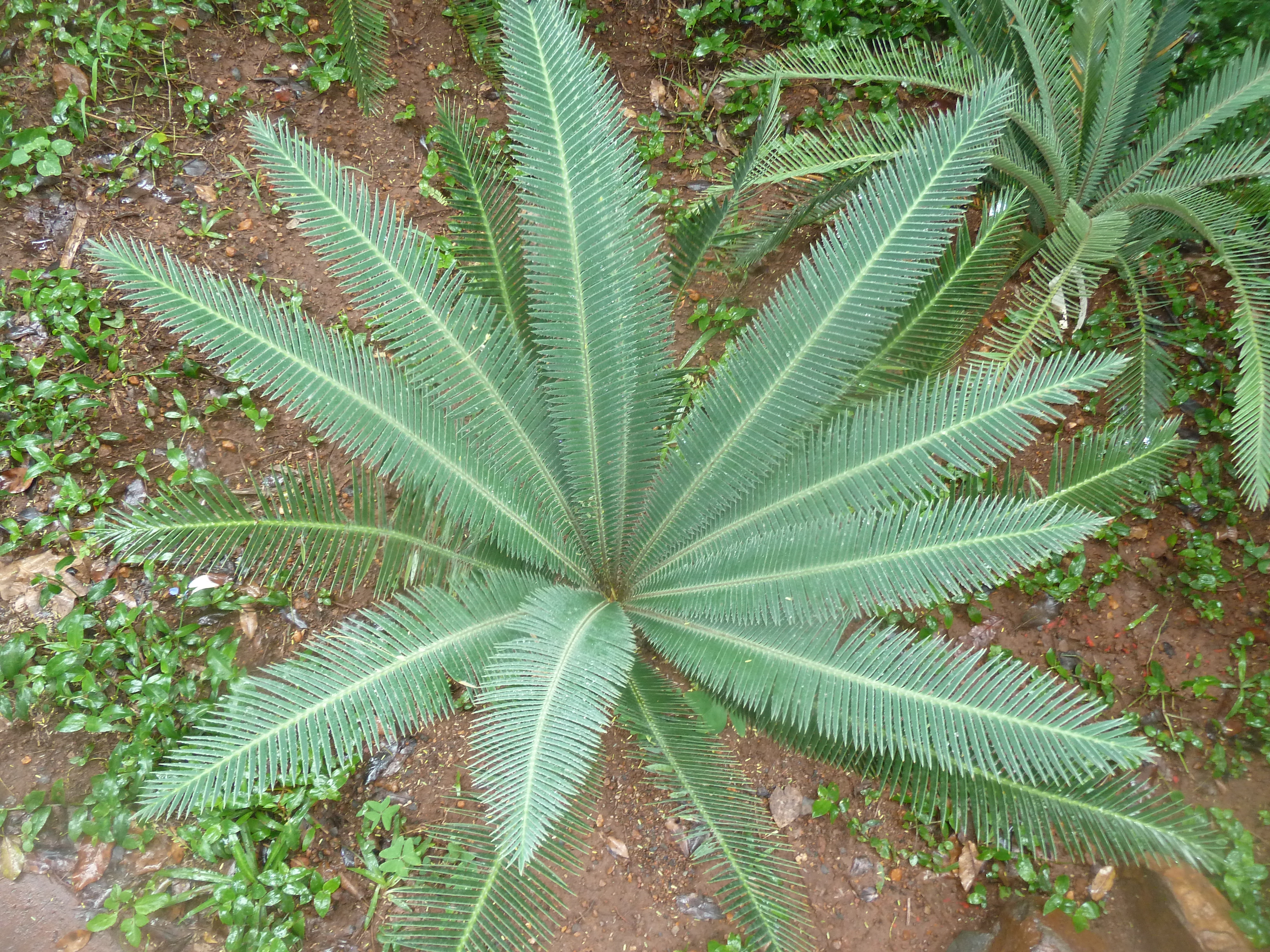 Habit of Dioon califanoi in the Manie van der Schijff Botanical Garden, Pretoria